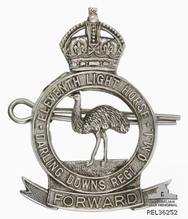 Silver badge with an Emu central set within a circle which contains the words 'ELEVENTH LIGHT HORSE DARLING DOWNS REGT O.M.I.' Beneath is scrollwork with the word 'FORWARD'. The badge is surmounted by a king's crown. The reverse has two soldered lugs and a loose pin that is used as the fastener.